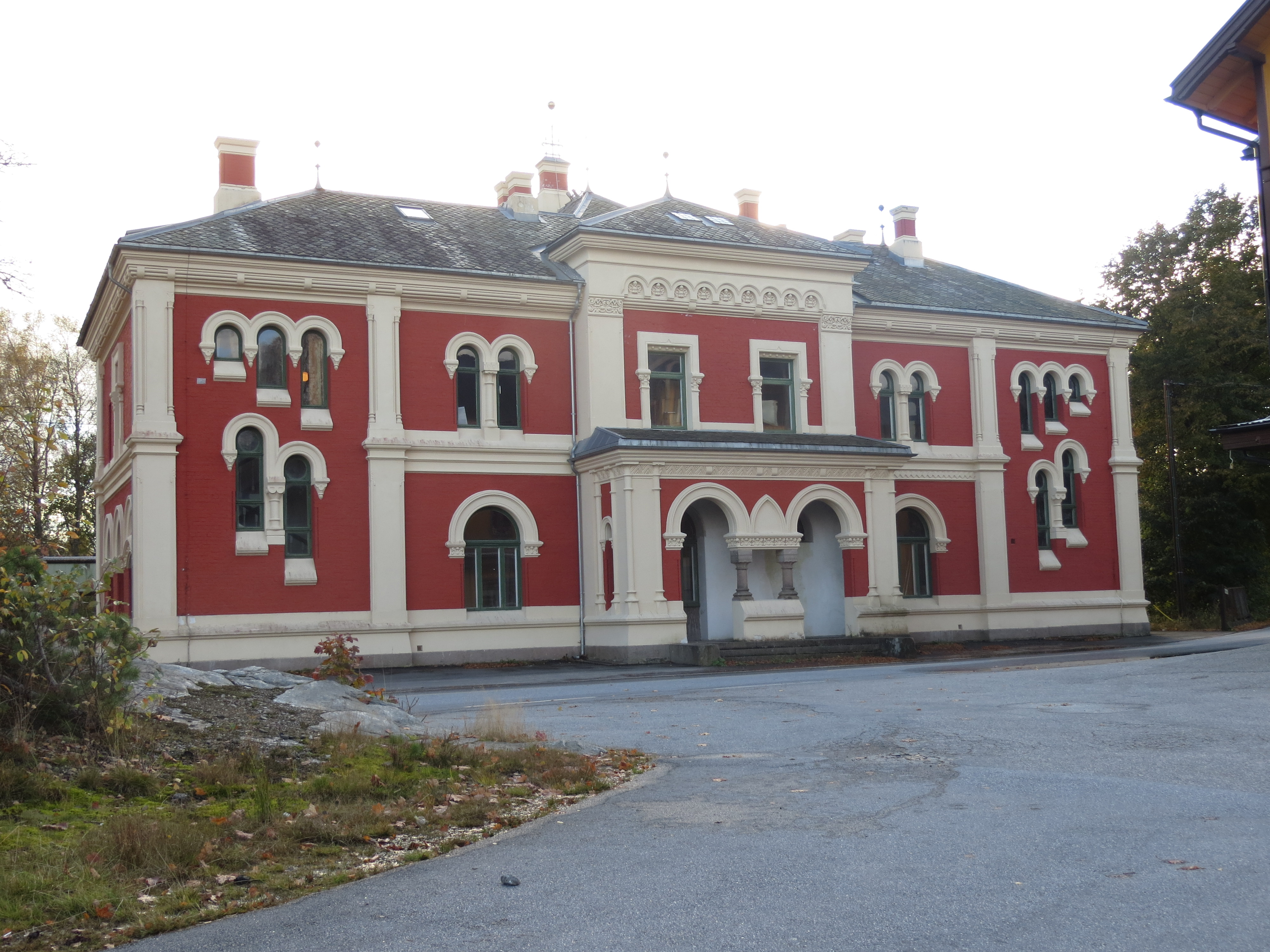 Photo from the little township of Kornsjø, at the border between Norway (Halden) and Sweden (Dals-Ed). The place Kornsjø has the border running along a channel between two lakes (Kornsjön).